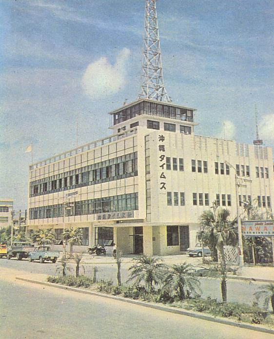 Okinawa Times Building in 1960s